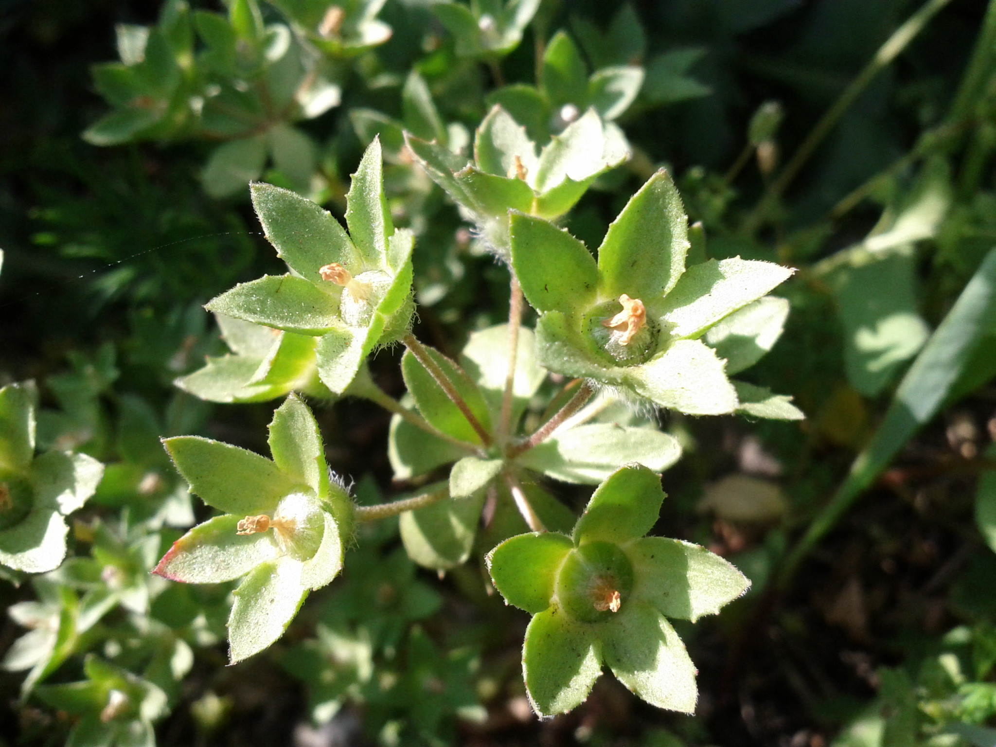 Infructescence Taxonym: Androsace maxima ss Fischer et al. EfÖLS 2008 ISBN 978-3-85474-187-9 Location: Sinawastingasse, Vienna-Floridsdorf - ca. 160 m a.s.l. Habitat: highway slope